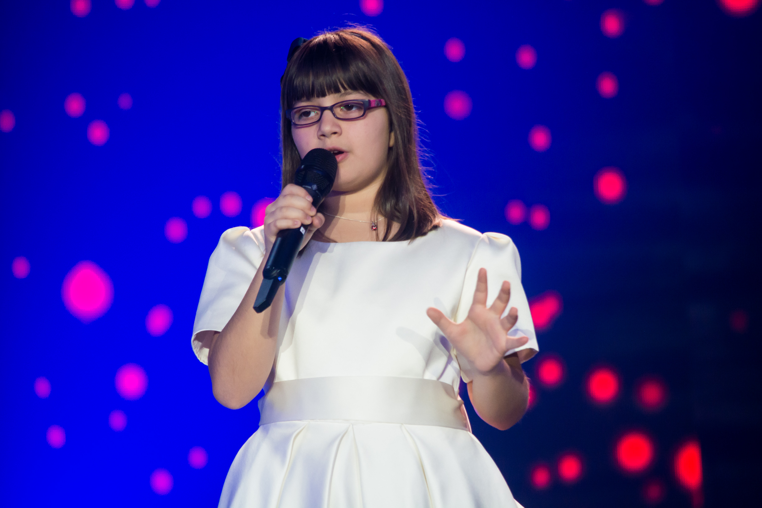 JESC 2016 participant: Klesta Qehaja (Albania)